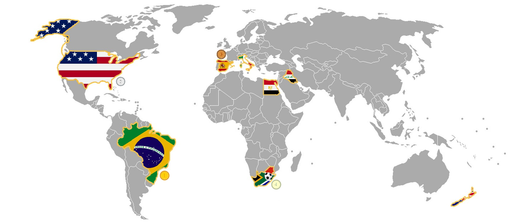 Map showing the location of the 2009 FIFA Confederations Cup teams as indicated by the respective nation's flag. The football (soccer ball) indicates the host nation. The top four finishers are indicated by the different colored medals.